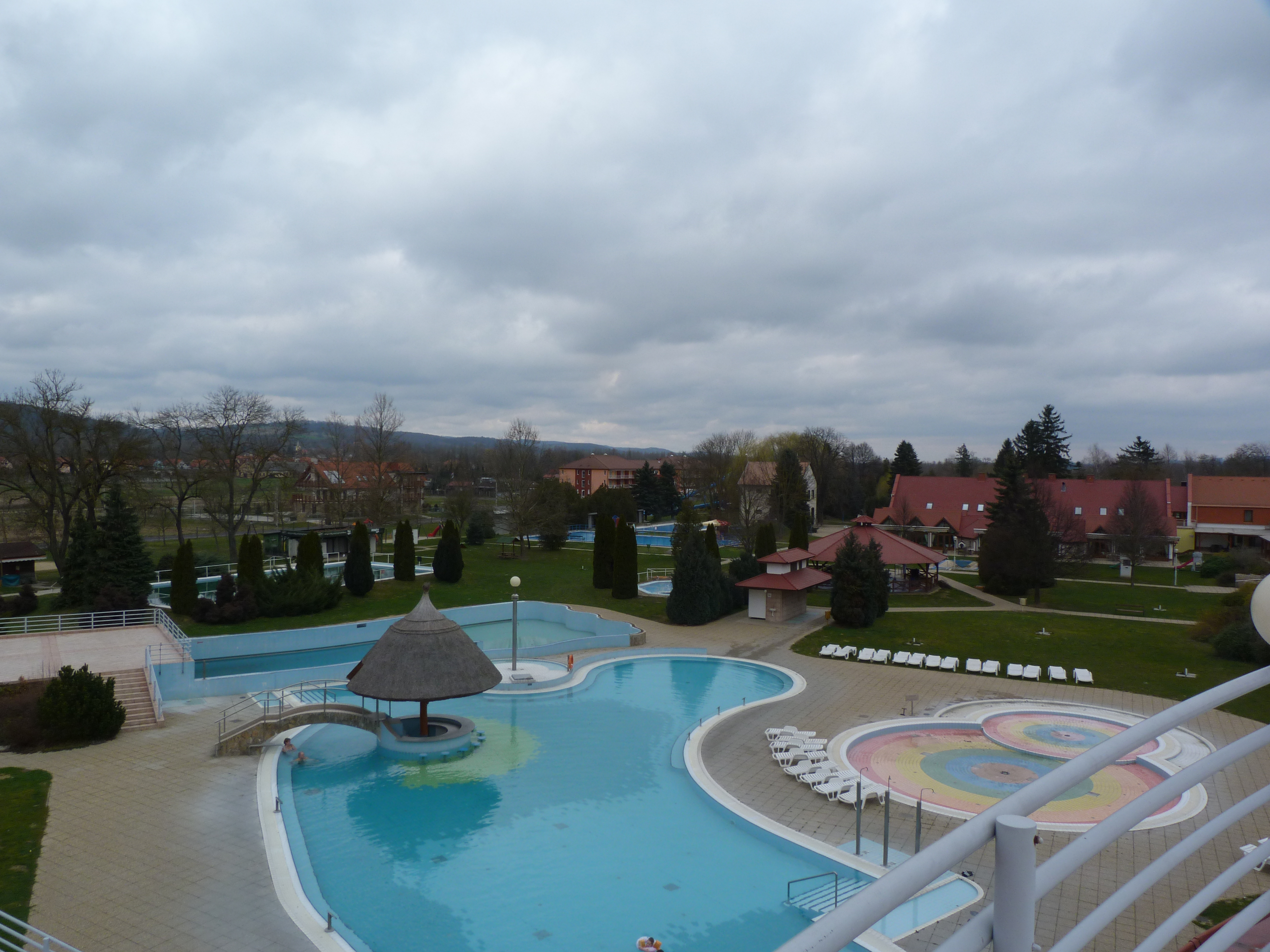 Taken on the 8th of March, 2016. Kehidakustány, Hungary.